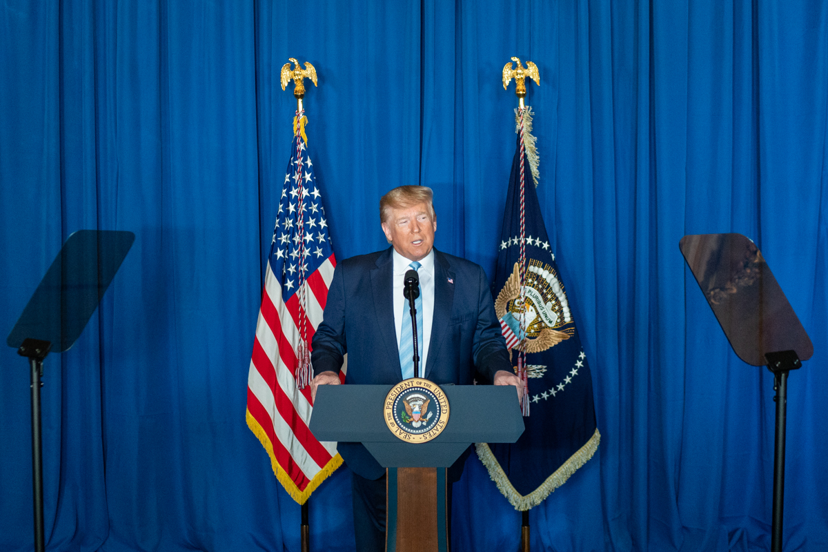 President Donald J. Trump delivers remarks during a press conference Friday, Jan. 3, 2020, at Mar-a-Lago in Palm Beach, Fla., following the U.S. airstrike in Iraq that resulted in the death of Iranian commander Qassim Soleimani. (Official White House Photo by Shealah Craighead)